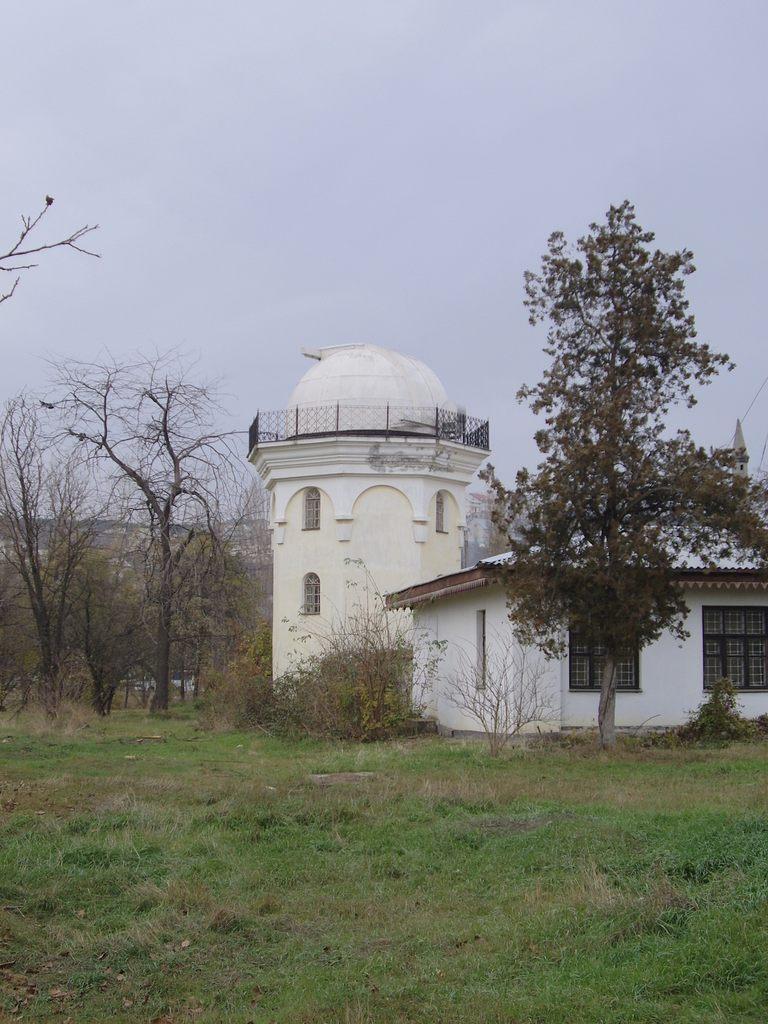 Peter Simon Pallas house in Simferopol